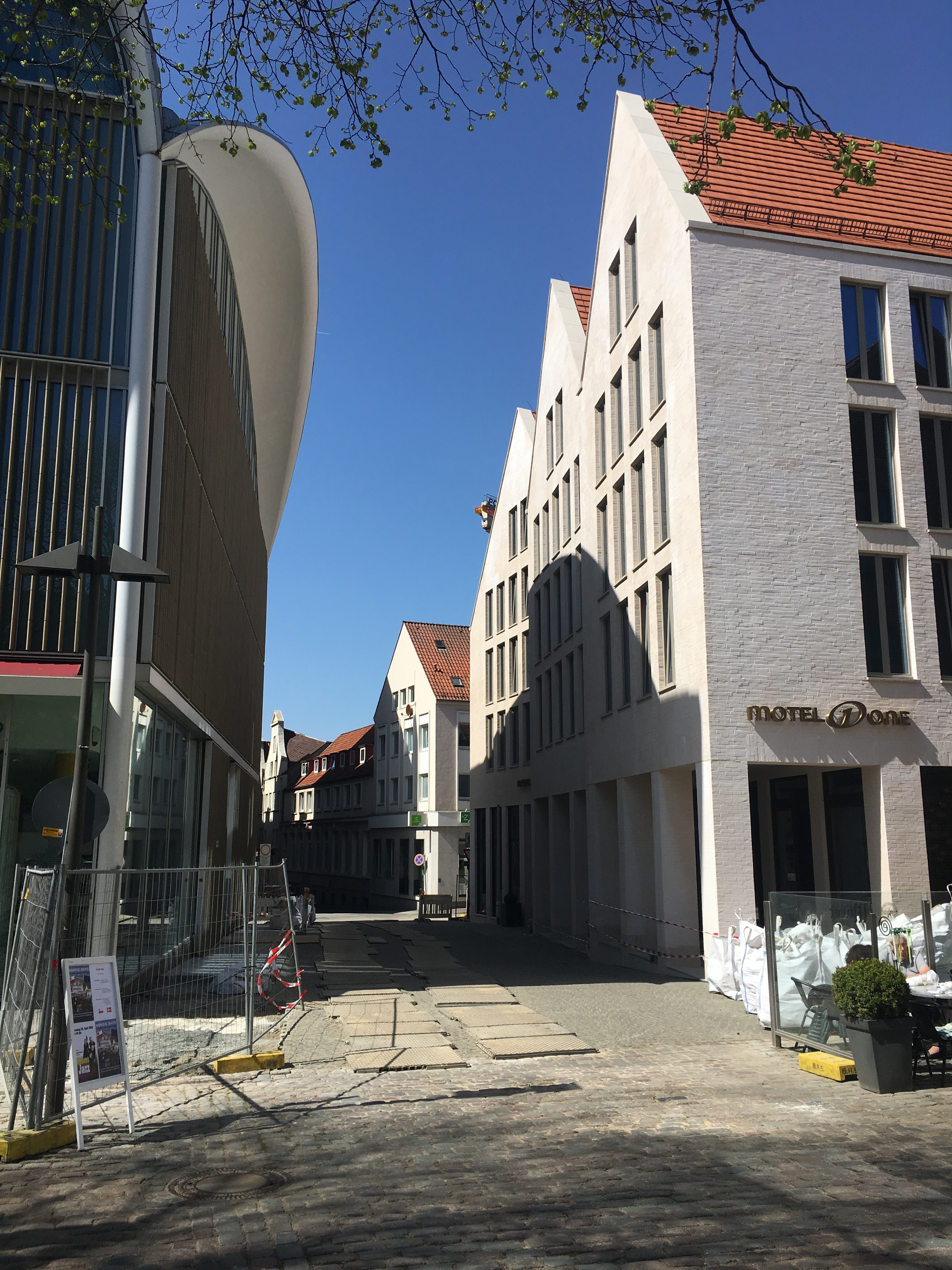 Motel One am Markt in Lübeck